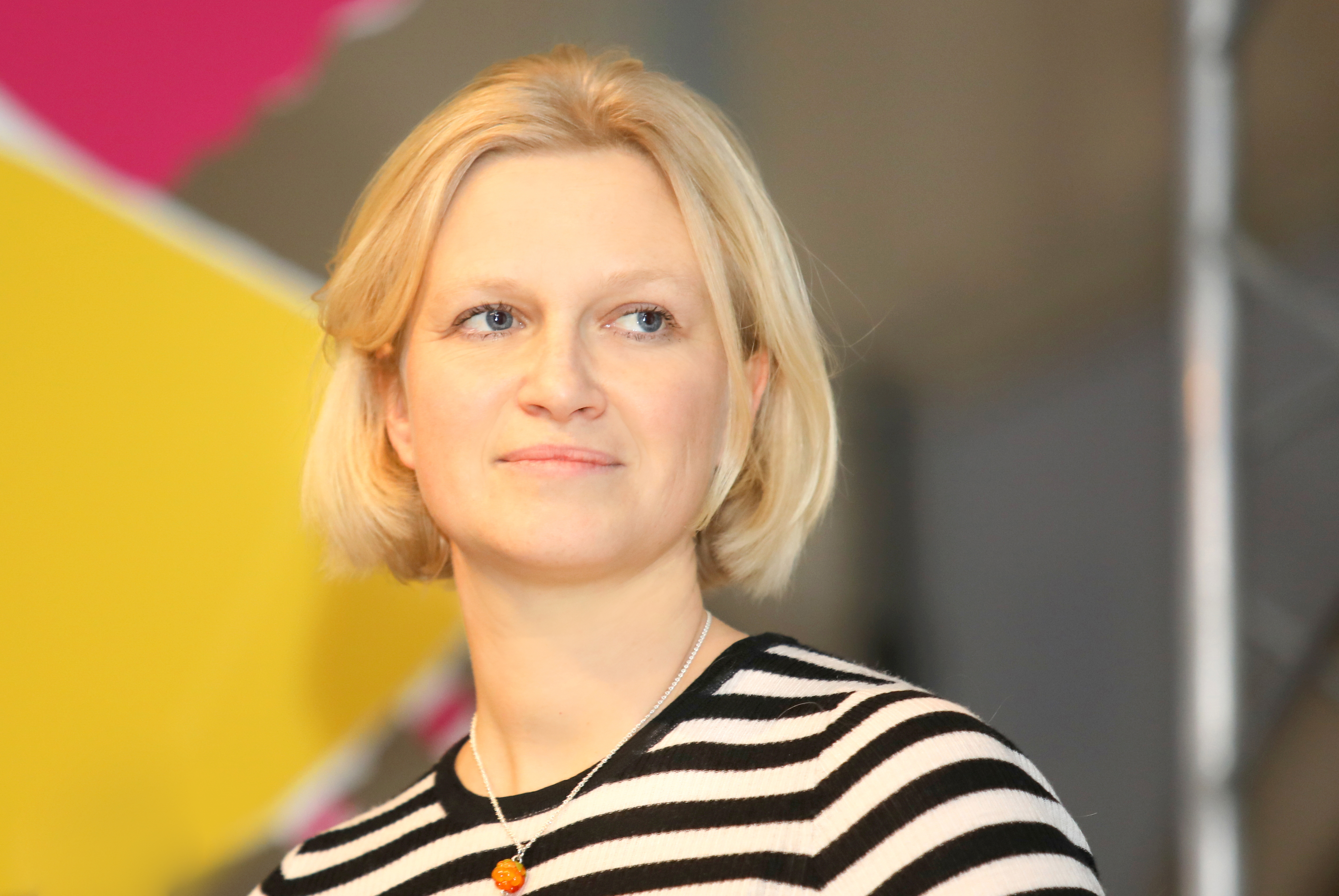 Norwegian children's writer Maria Parr at the 21 Moscow International Fair of Intelectual Books (non/fiction).